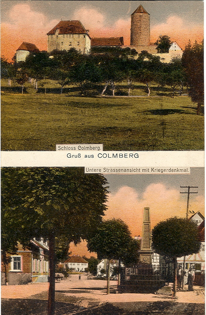 Postcard, undated ( ca.1914 ). Title: "Greetings from Colmberg - Colmberg castle - Downtown view with war monument."